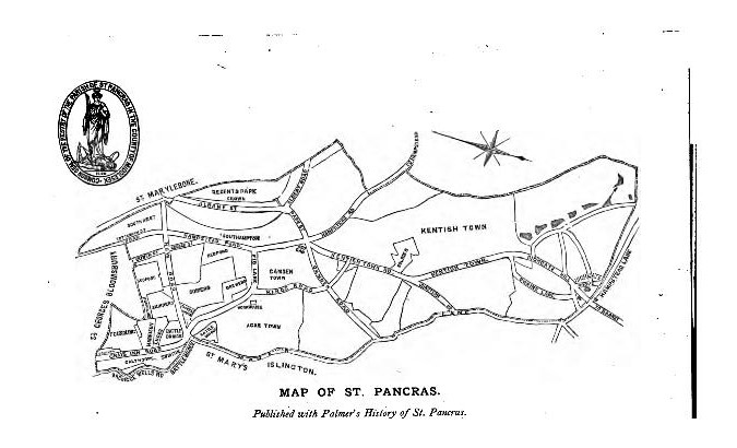 Map of St Pancras, Middlesex, England, published in 1870